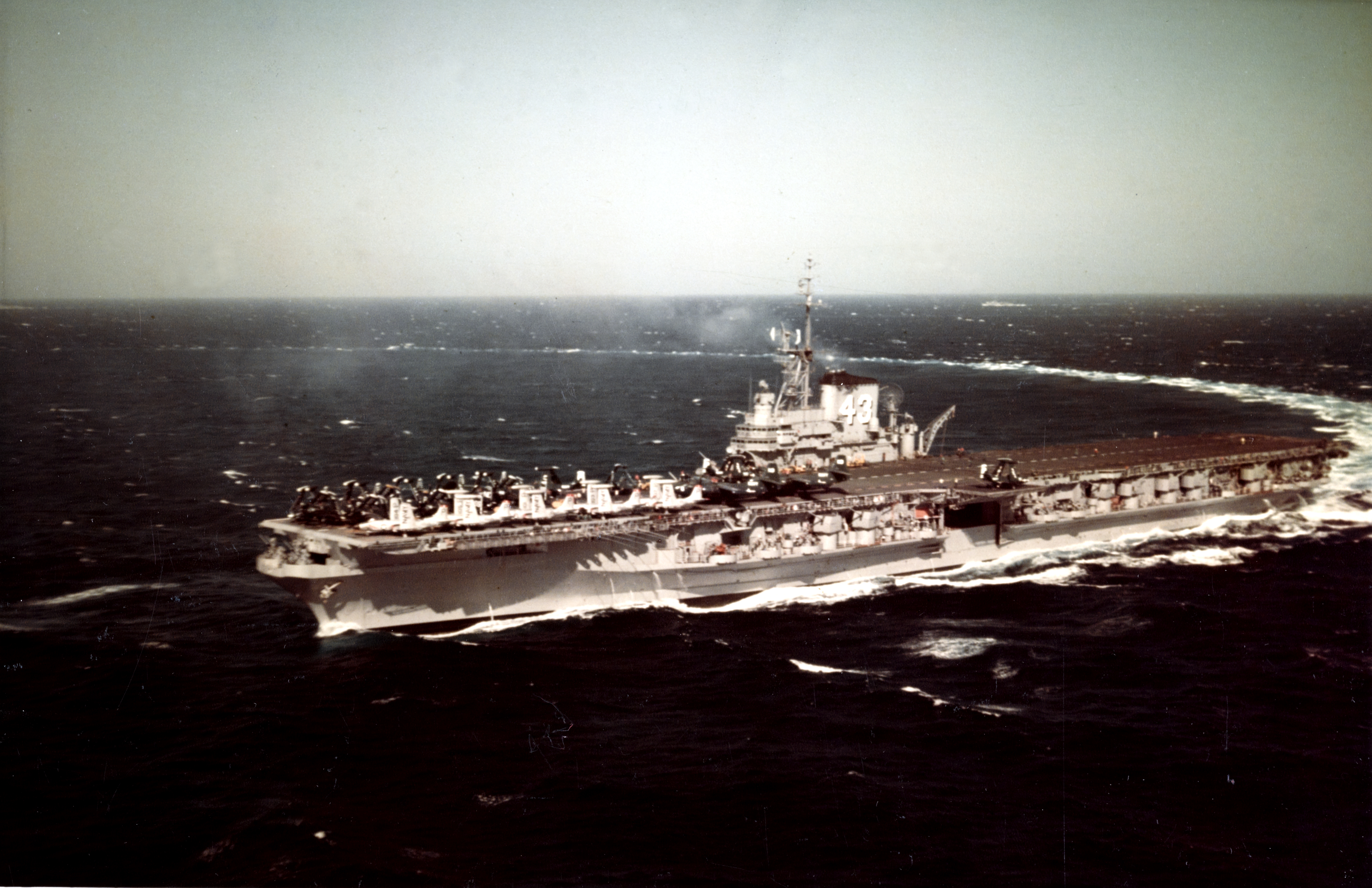 The U.S. Navy aircraft carrier USS Coral Sea (CVA-43) maneuvers at high speed, 28 July 1955. Coral Sea, with assigned Carrier Air Group 10 (CVG-10), was deployed to the Western Atlantic and the Mediterranean Sea from 23 July 1956 to 11 February 1957.